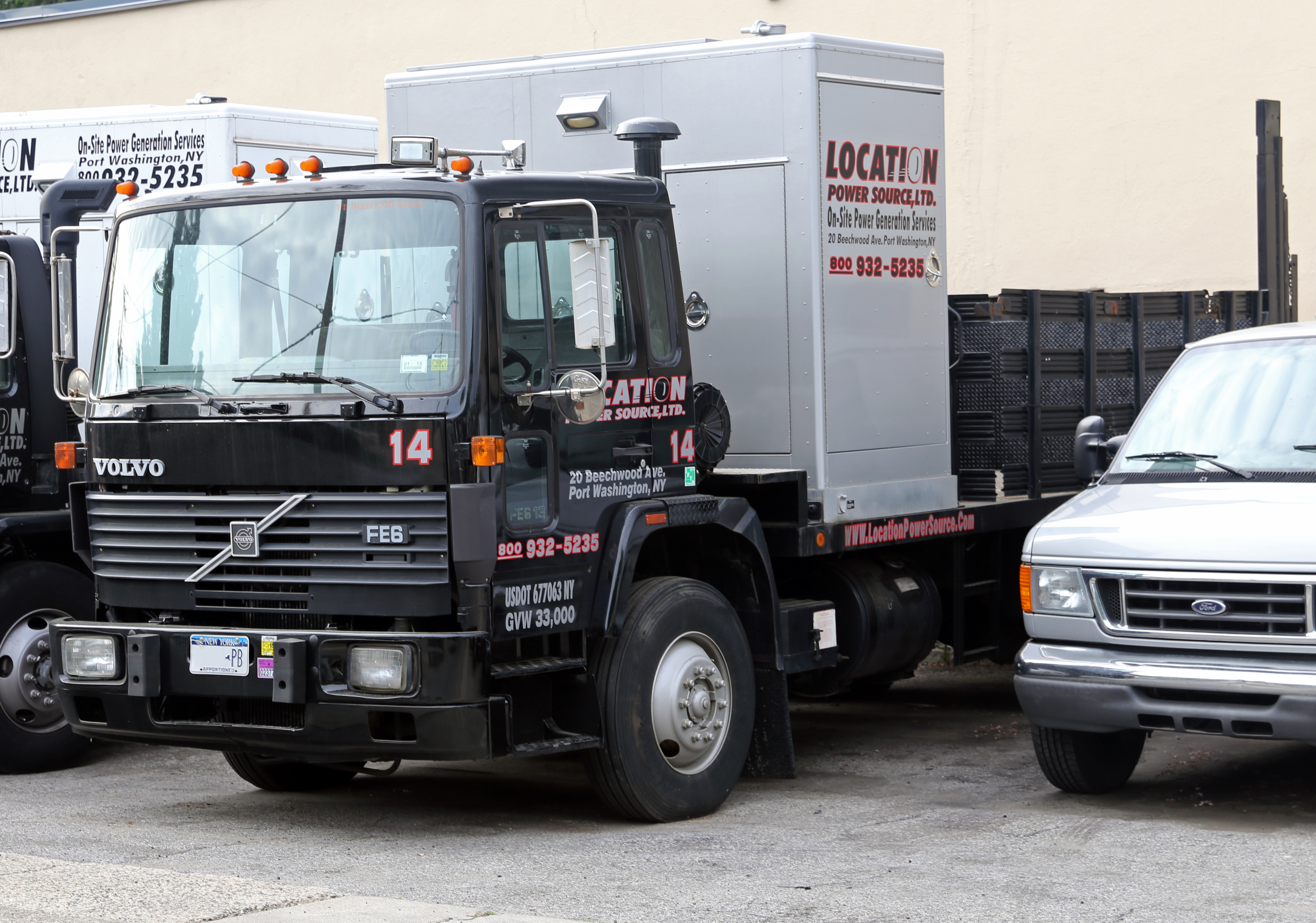 A 1992 Volvo FE6 13 4x2 cabover Class 7 truck with the 6.6 litre Caterpillar 3116 diesel engine. Built in Orrville, OH.